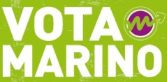 Vota Marino logo.